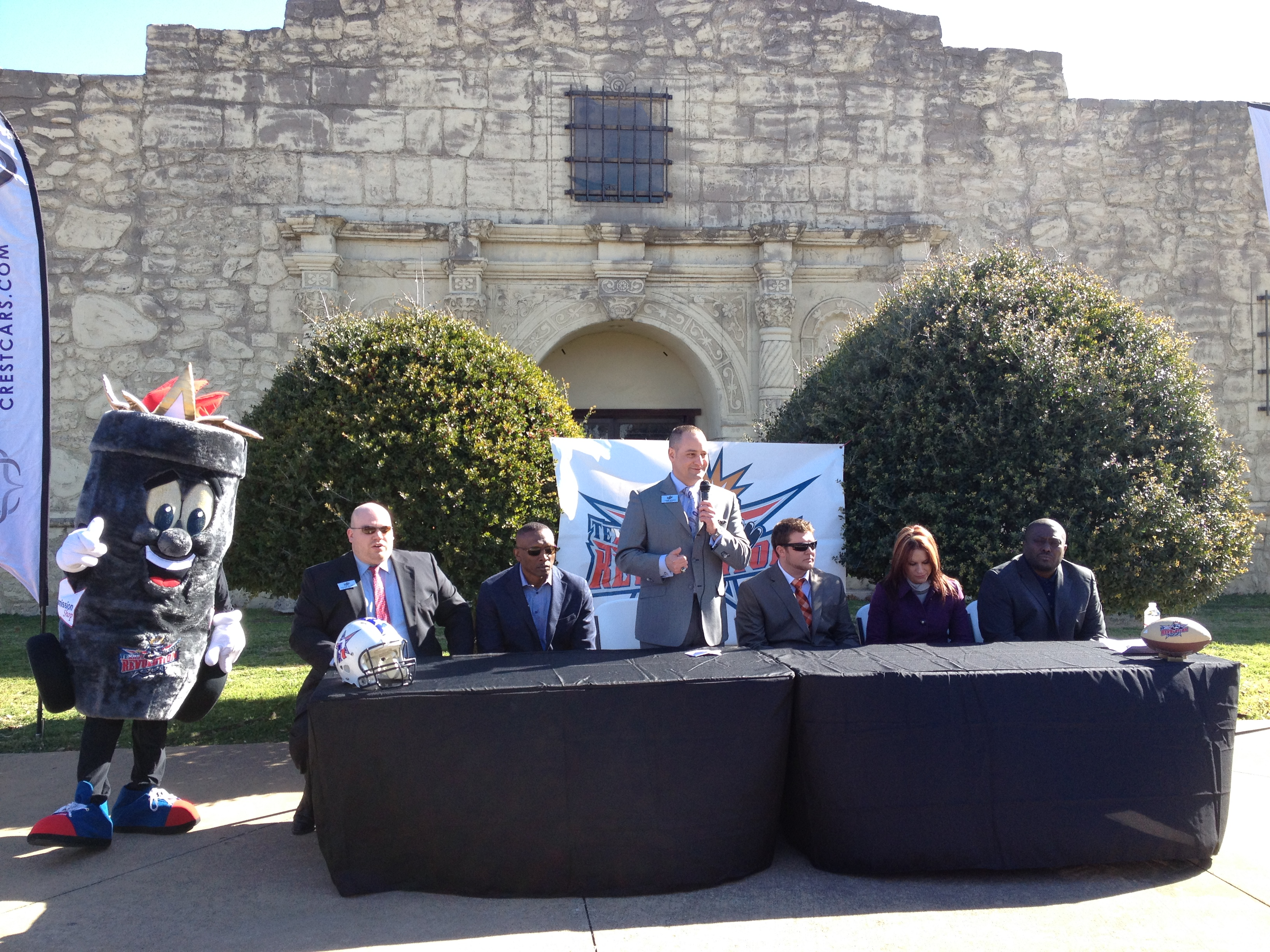 Team president Tommy Benizio, general manager Tim Brown, and head coach Chris Williams welcome new running back Jen Welter, the first woman to play pro football at any level other than as a kicker, to the Texas Revolution of the Indoor Football League.